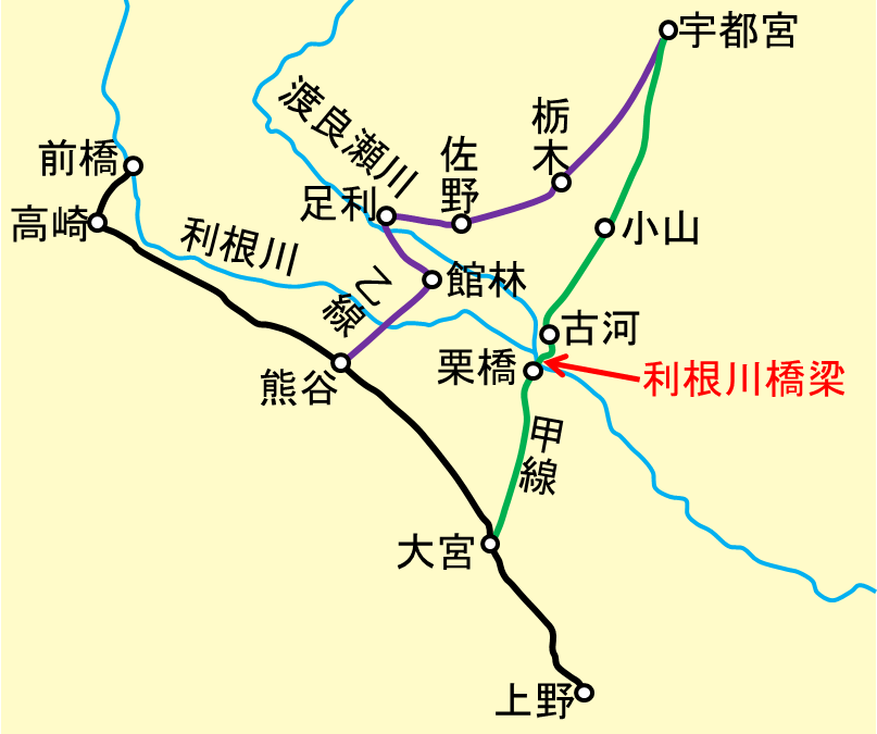 A map showing how the route of the second section of Nippon Railway was chosen, for the background of the construction of Tonegawa bridge